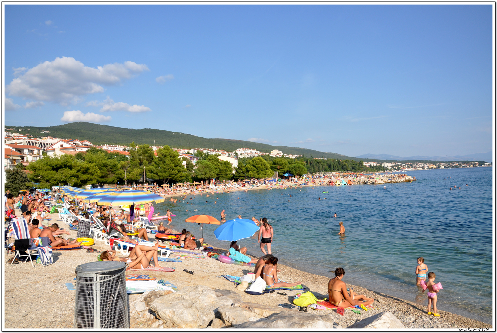 Sandy beach.